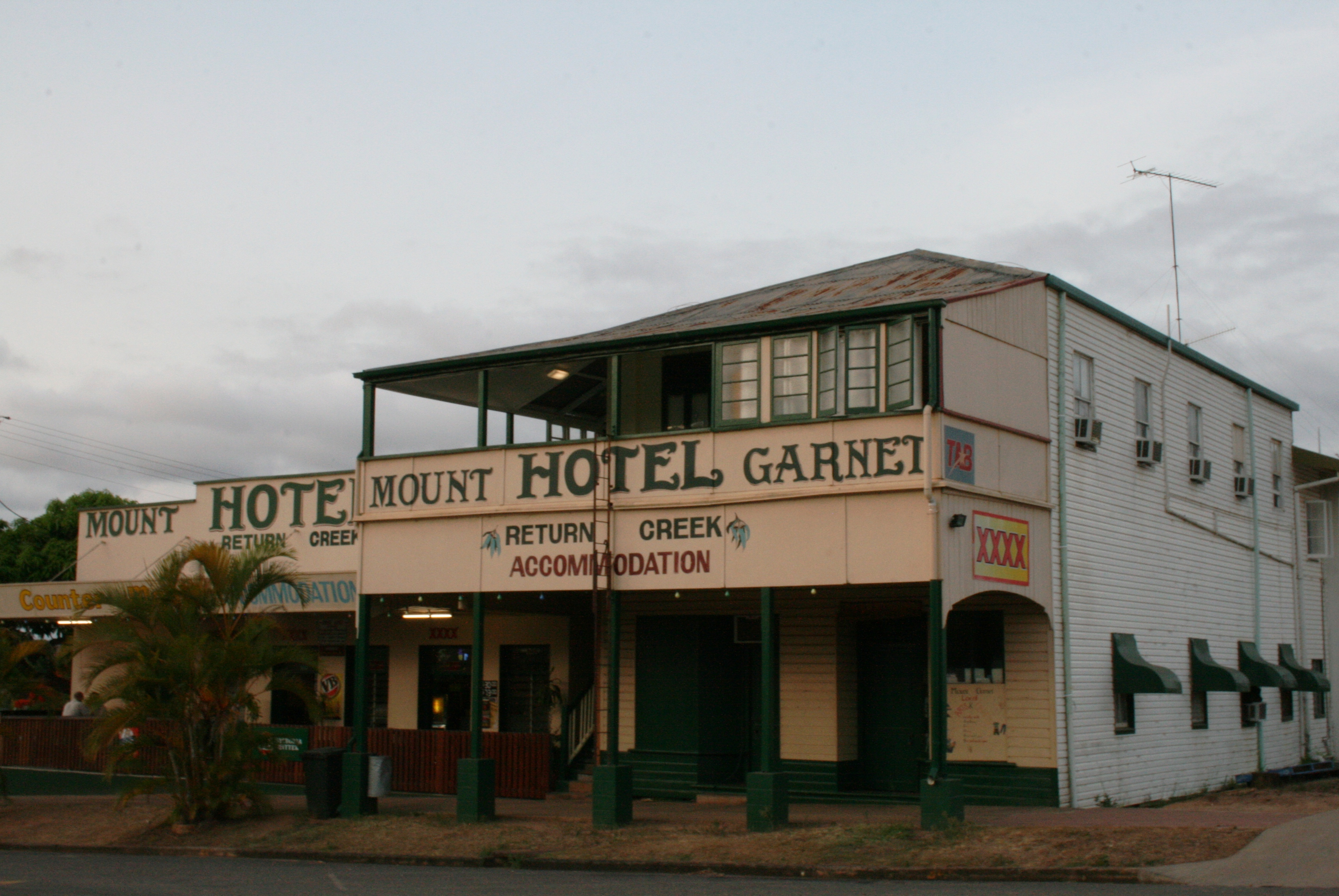 Mount Garnet in north Queensland, Australia